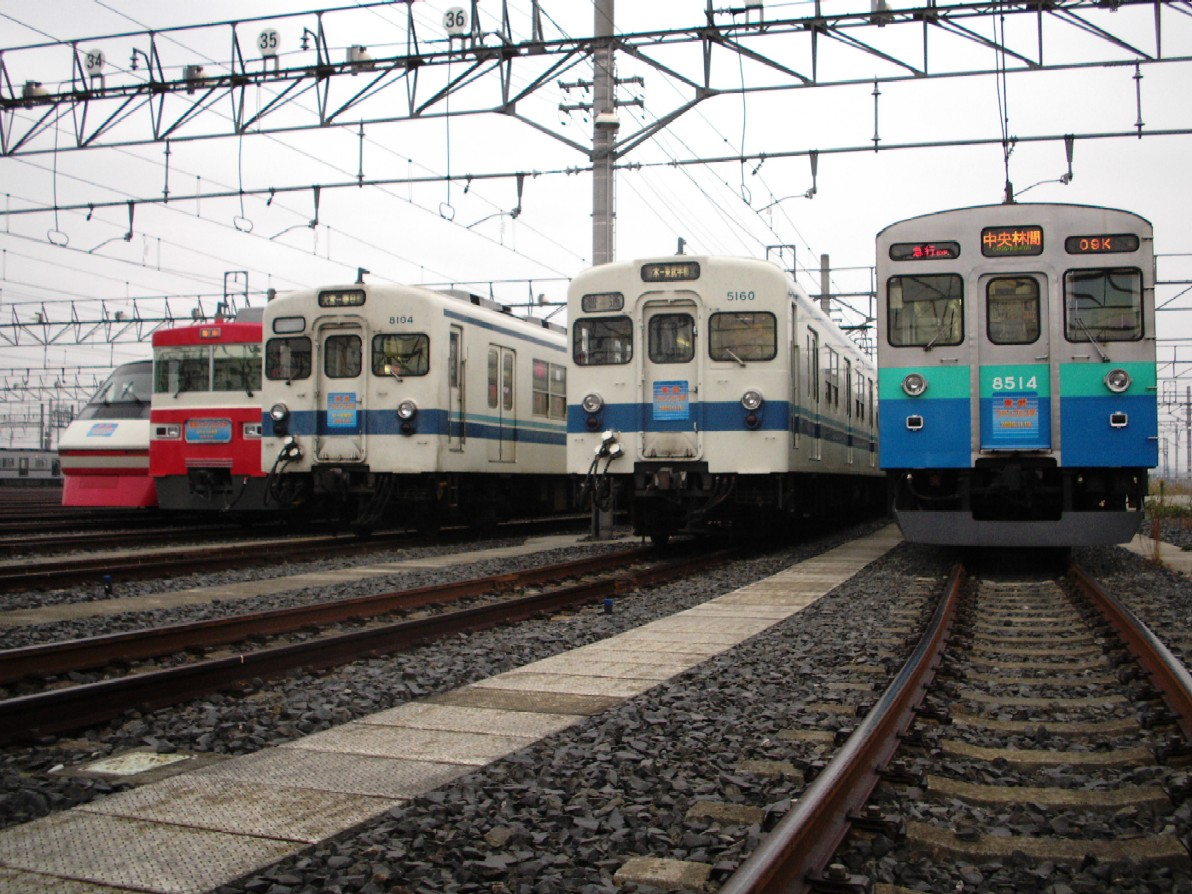 A line-up of Tobu and Tokyu trains at the 2006 Tobu Minami-Kurihashi Depot Open Day